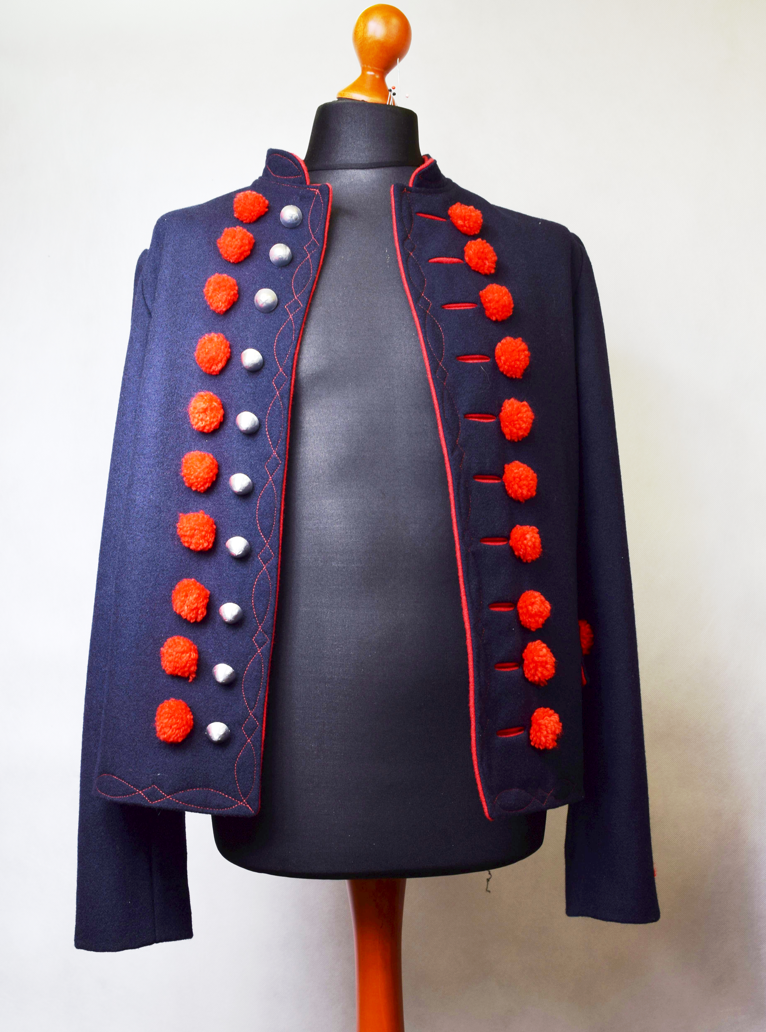 Men's "bruclik" jacket, Żywiec Beskids.